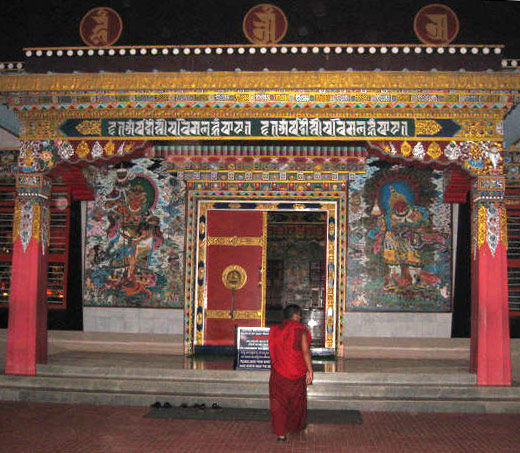 A detail of Penor Rinpoche's Nyingma Buddhist temple Namdrolling (so-called Golden Temple) in Bylakuppe, nr Kushalnagar, Karnataka in South India, displaying Lanja (Ranjana) script use in Tibetan Buddhism both in single encircled letters and a string of text. A monk is seen walking under the inscriptions.